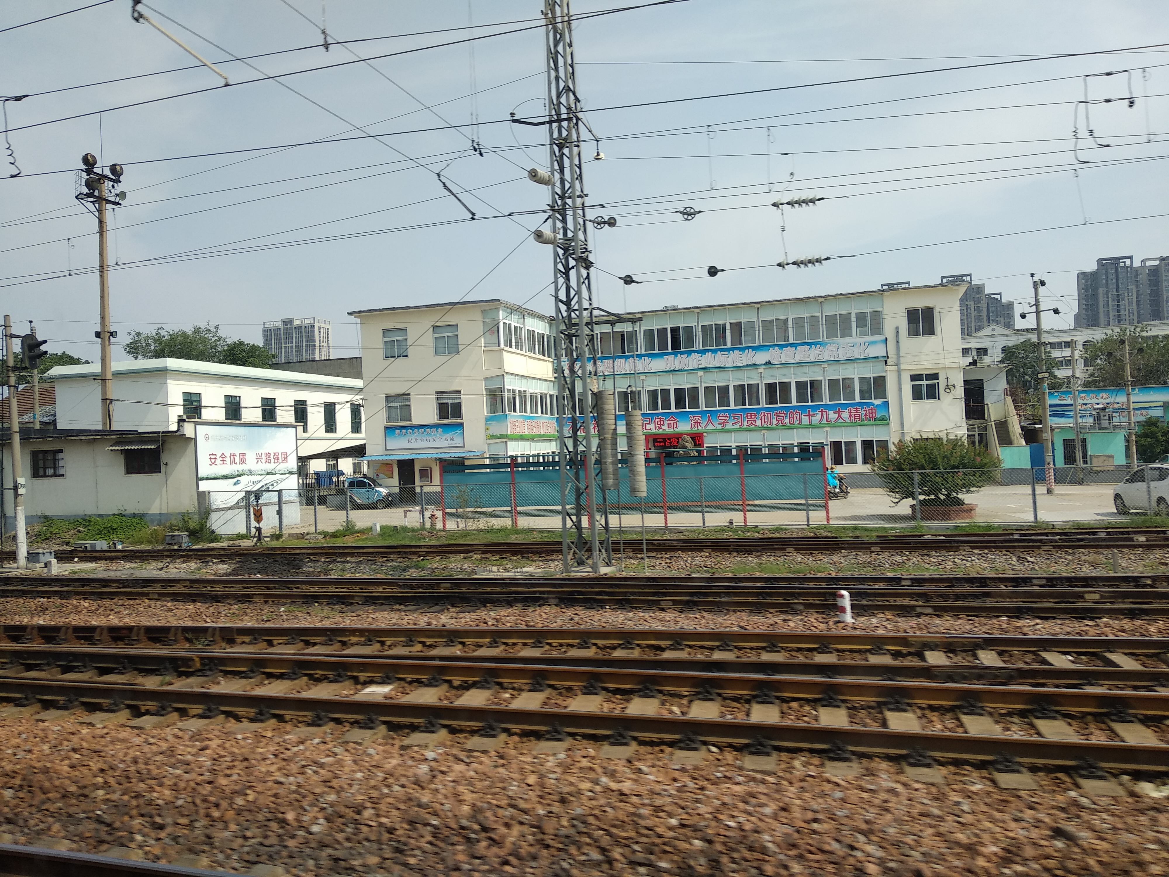 Taken from train C2876 on approach to Zhengzhou Station. There used to be a "Zhengzhoudong" marking on the building until April 2016.